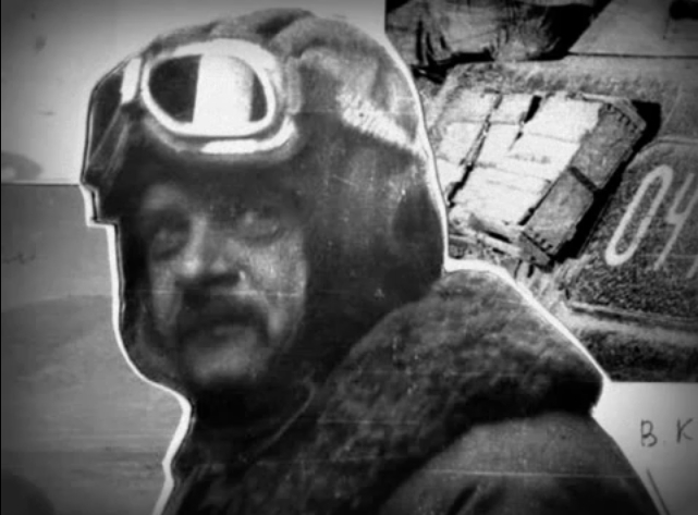 Vladimir Kvachkov in a tank-crew outfit (a photo collage.)